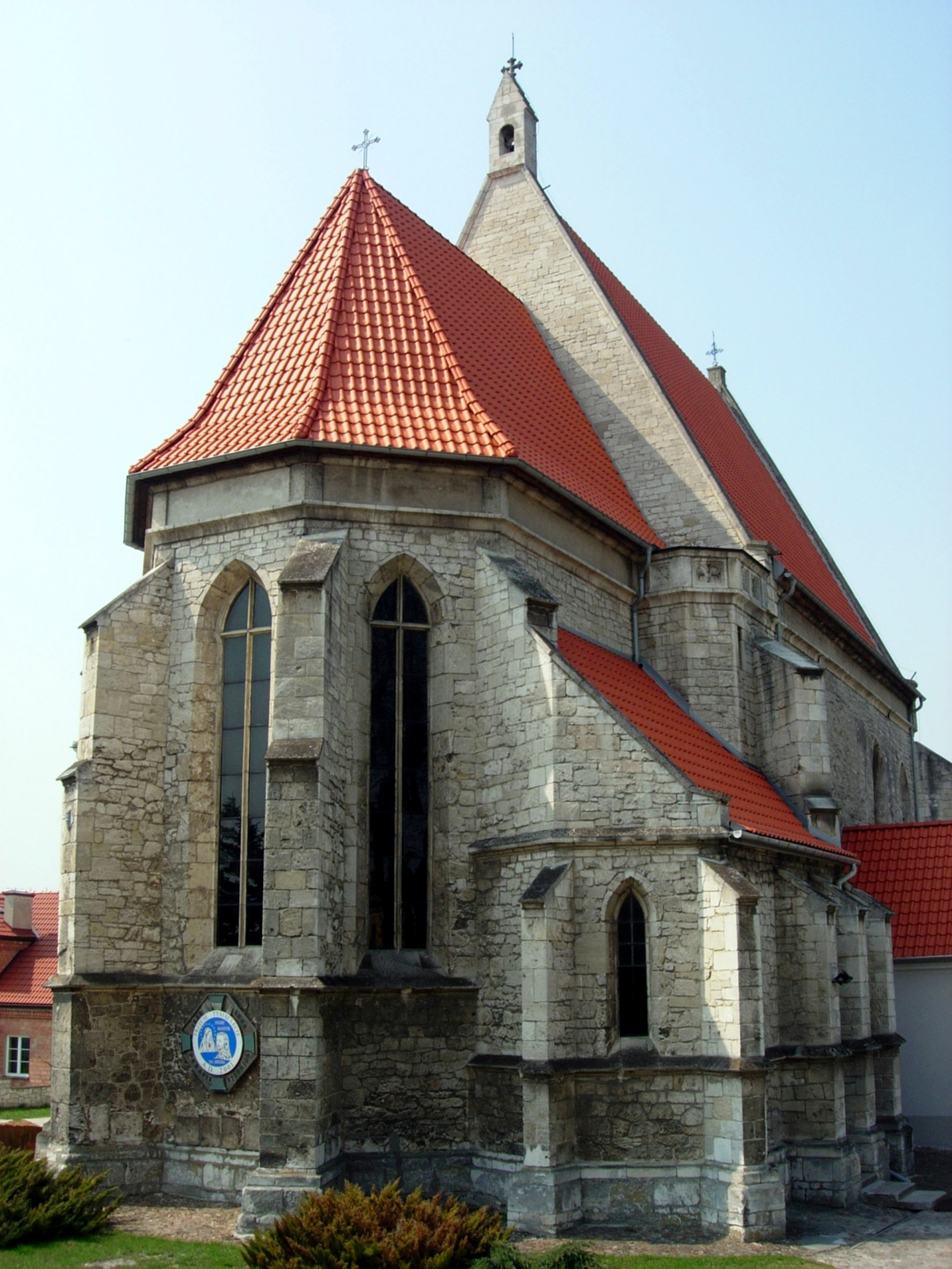 Church in Stopnica, Poland